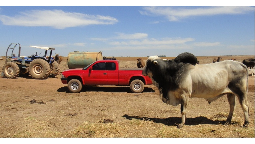 Brazilia Dodge Dakota RT , with a Magnum 318 engine, working at a cattle farm in Central Brazil.